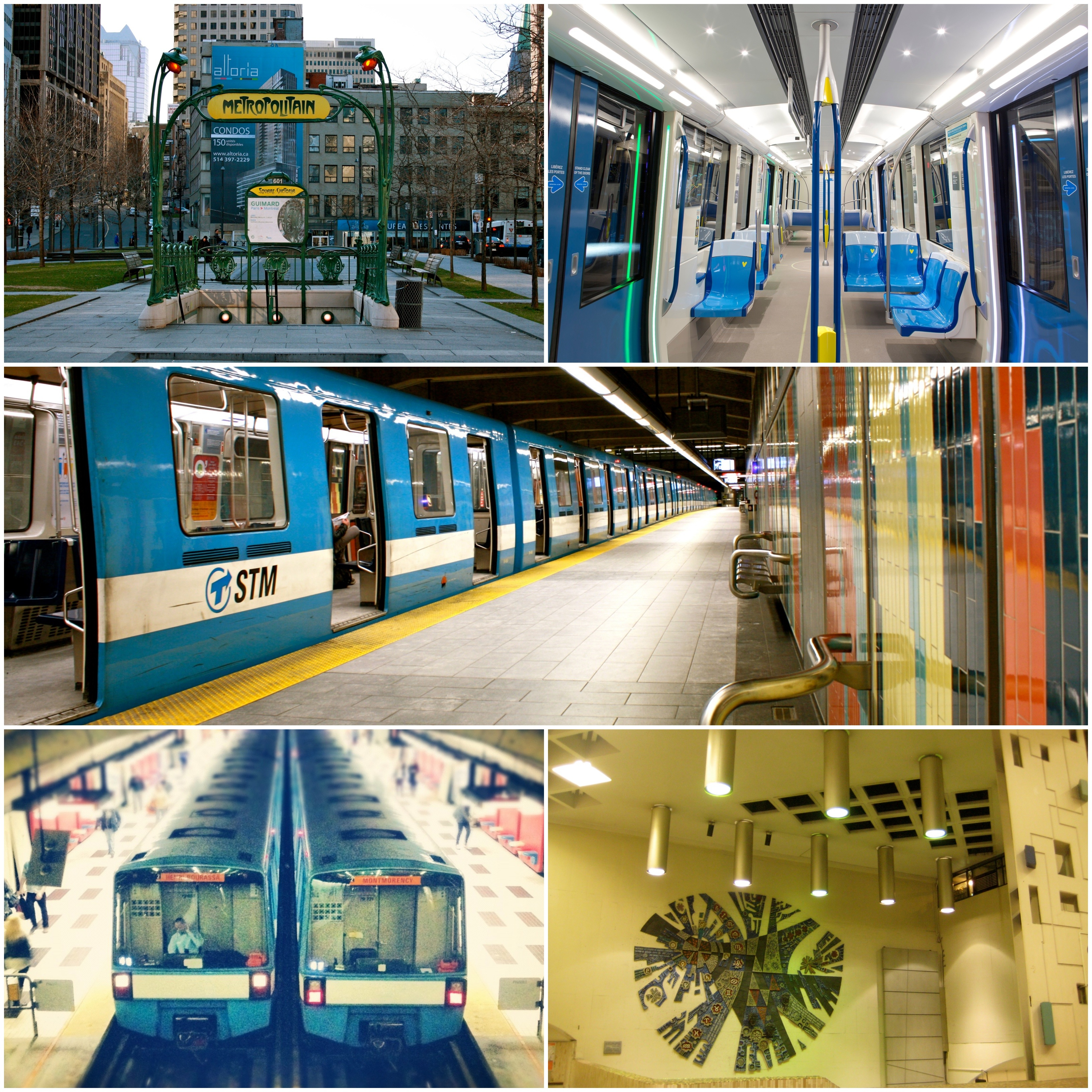 Photos of the Montreal metro. 1. (upper left) Square-Victoria-OACI station: An entrance styled after the Paris metro entrances originally designed by Hector Guimard.2. (upper right) Interior of a MPM-10 Azur car.3. (centre) An MR-73 train at Montmorency station.4. (lower left) Two MR-73 trains at Plamondon station.5. (lower right) Ceramic mural, Crémazie station.